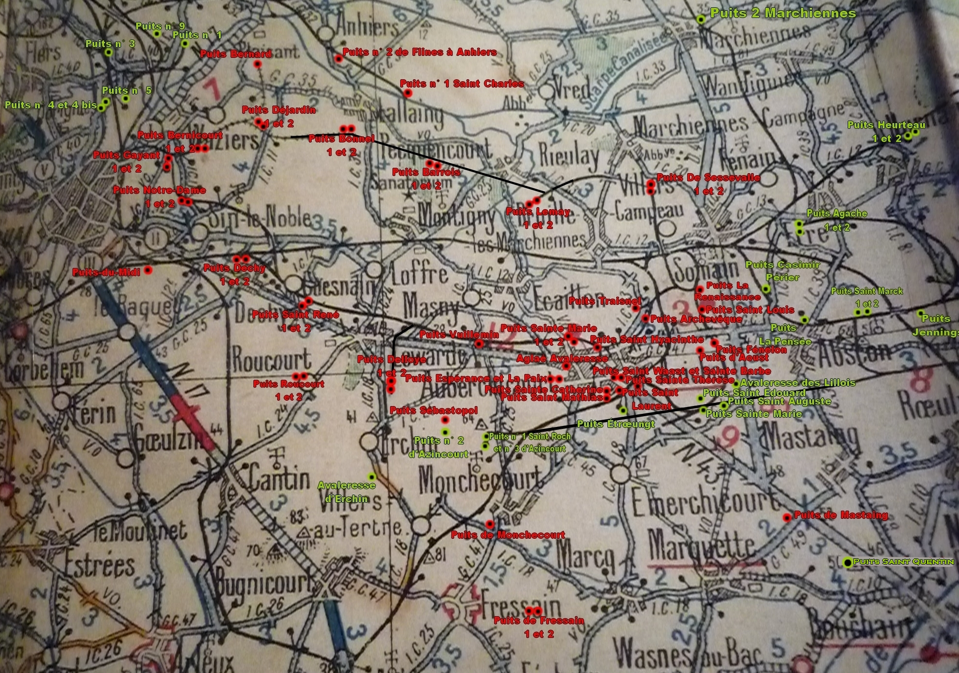 Pit of the Compagnie des mines d'Aniche.